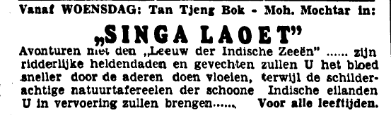 Newspaper advertisement for the 1941 film Singa Laoet